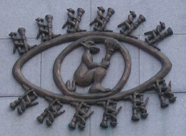 At the Flinger Straße in Düsseldorf-Altstadt, Germany. Design Jörg Immendorff.